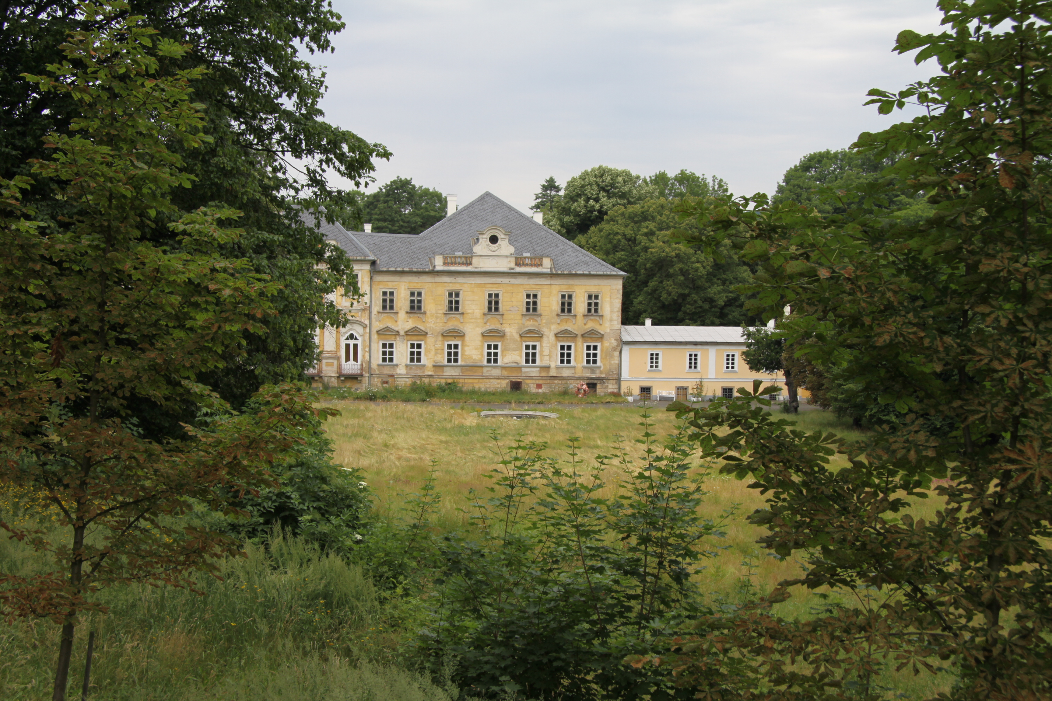 Hluboš village in Příbram District, Czech Republic. Chatau Hluboš